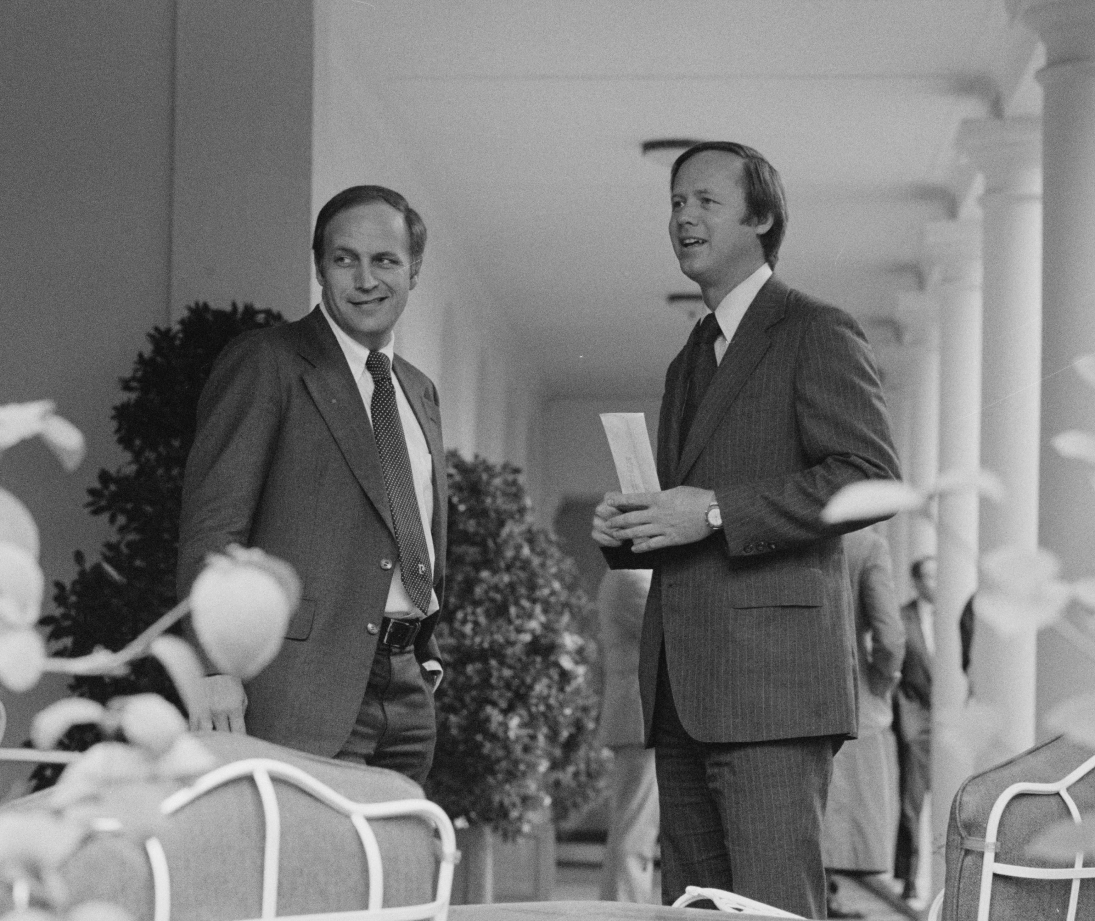 White House Chief of Staff Richard Cheney with another member of the Ford administration staff at the White House, Washington, D.C.